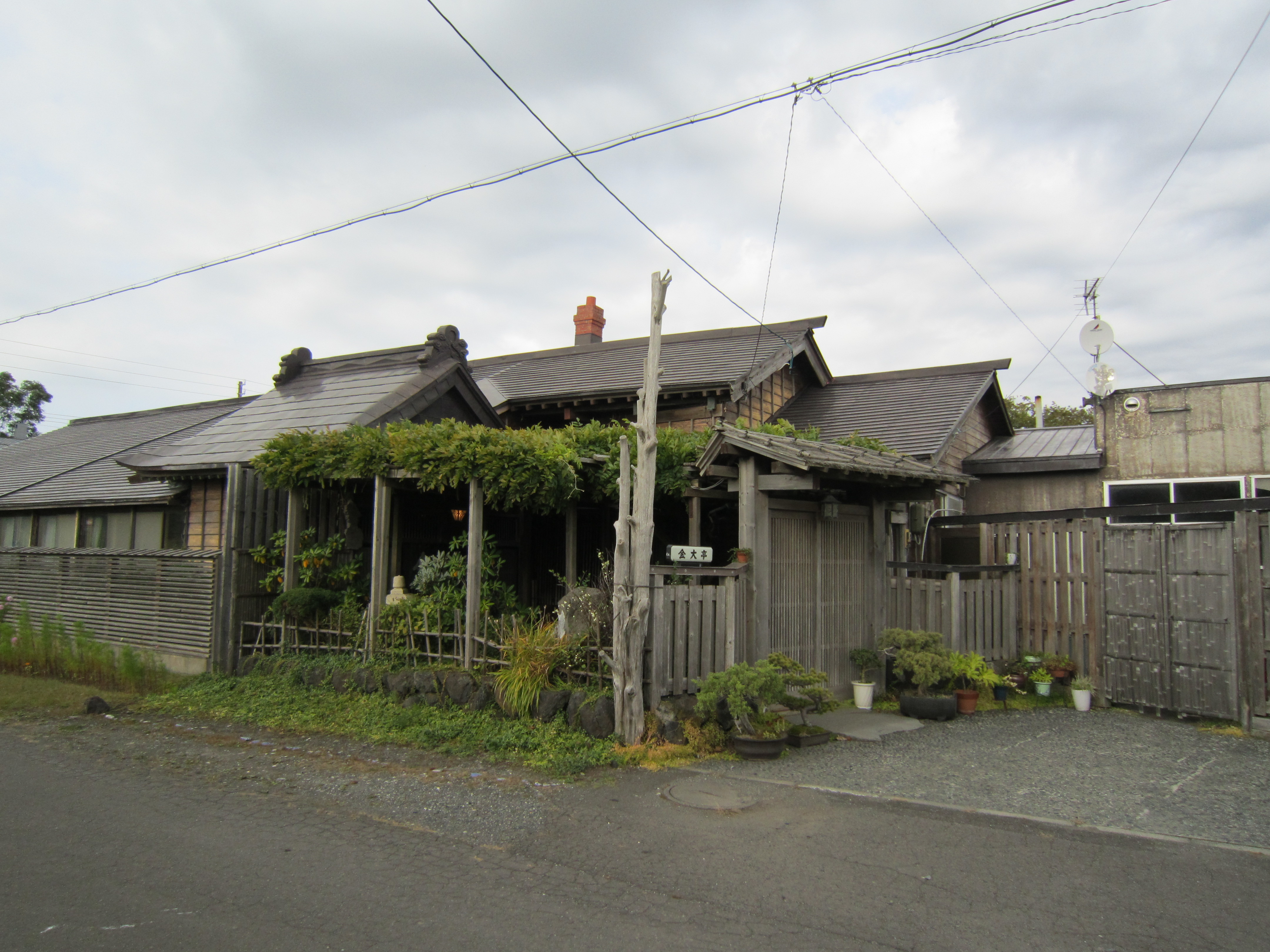 Kindaitei